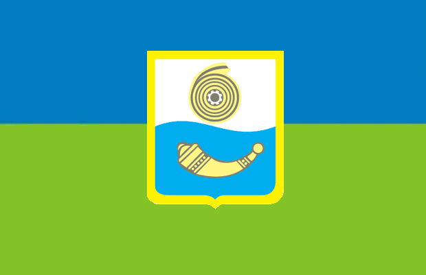 Flag of Shostka (Ukraine)